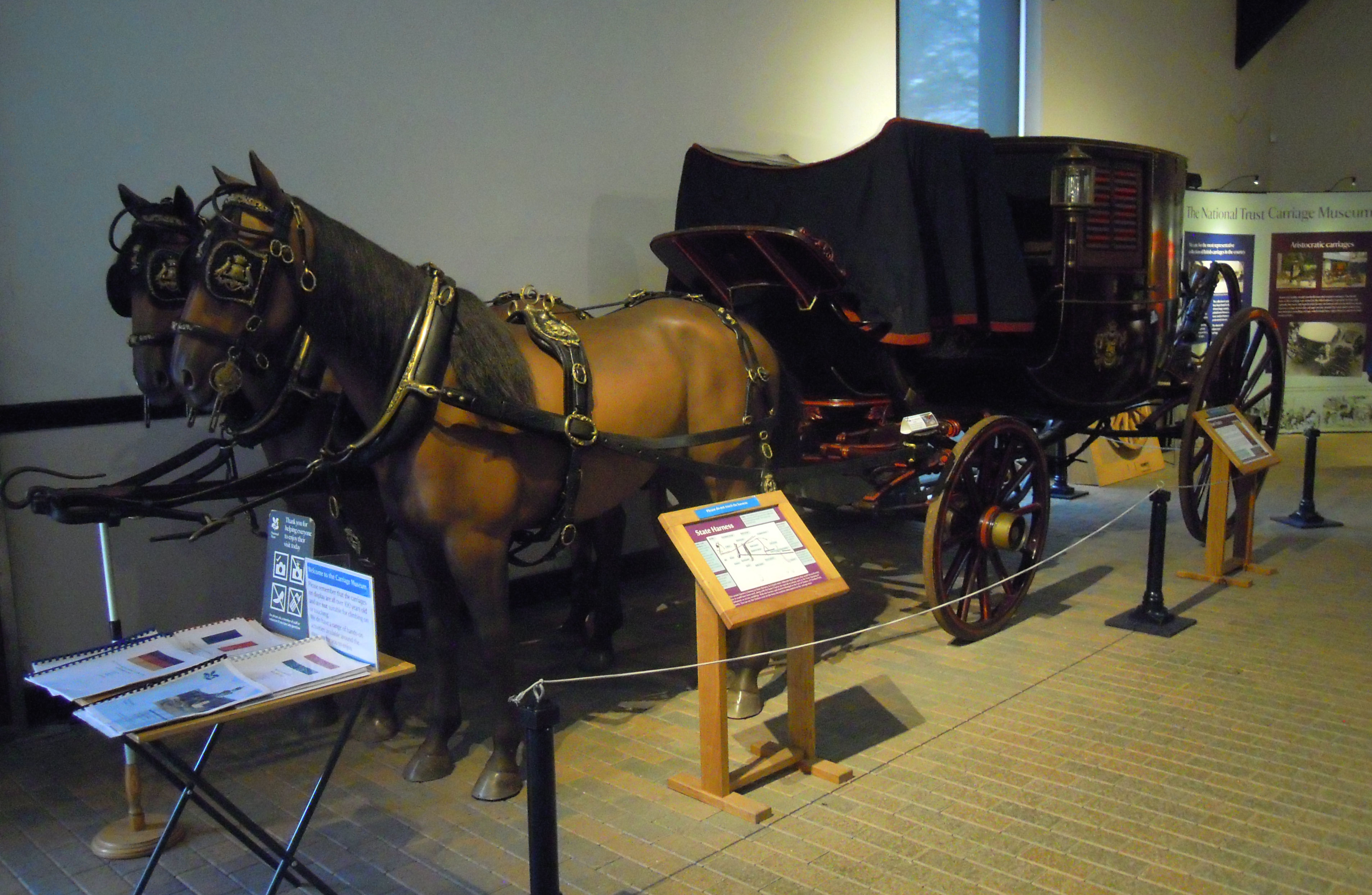 An exhibit in the Carriage Museum at Arlington Court near Barnstaple in Devon